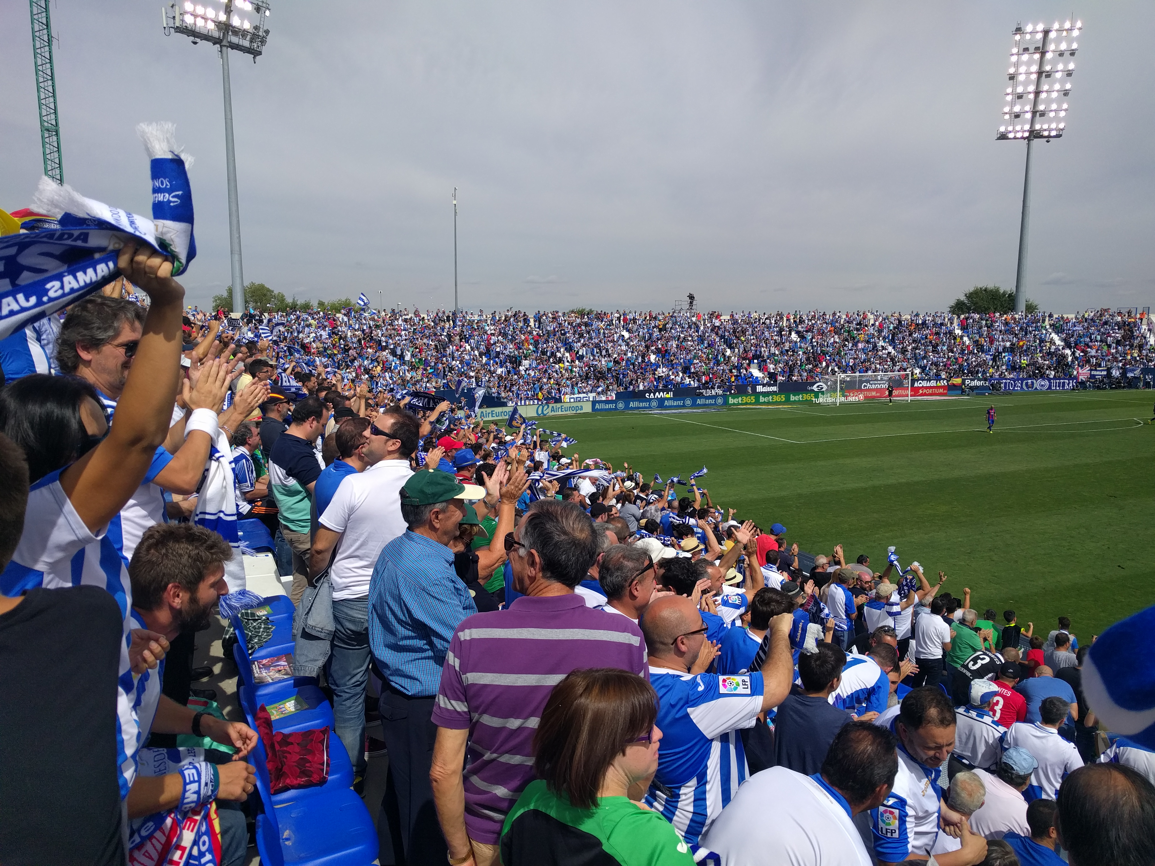 Gabriel scores, CD Leganés 1:5 FC Barcelona, 17th de September de 2016